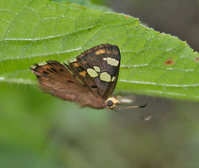 Tricoloured Pied Flat Coladenia indrani in Hyderabad , India.